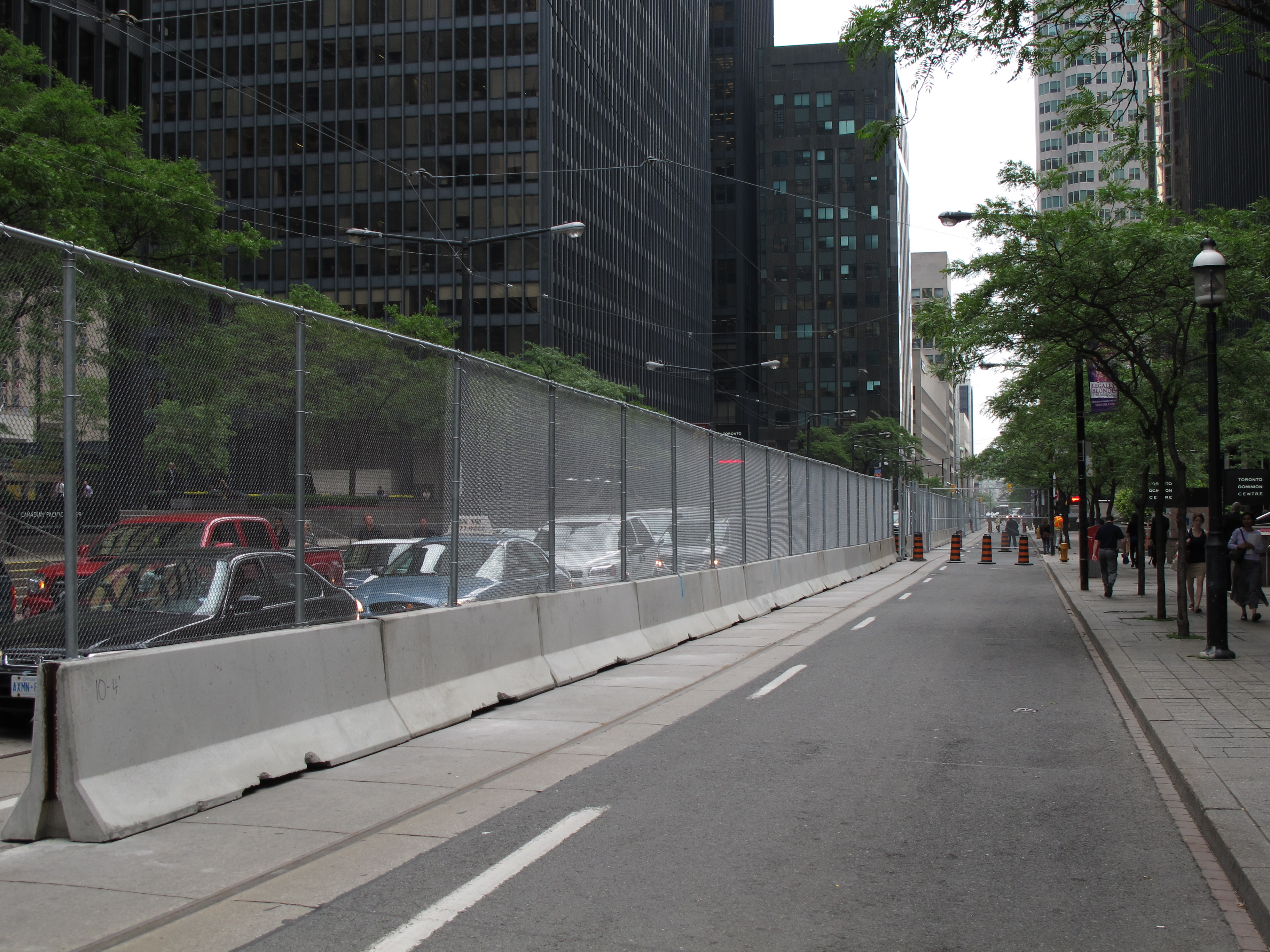 Preparing for the G20 Summit in Toronto -- security fencing installed down the middle of Wellington St., here looking East from the SE corner of Wellington and York.